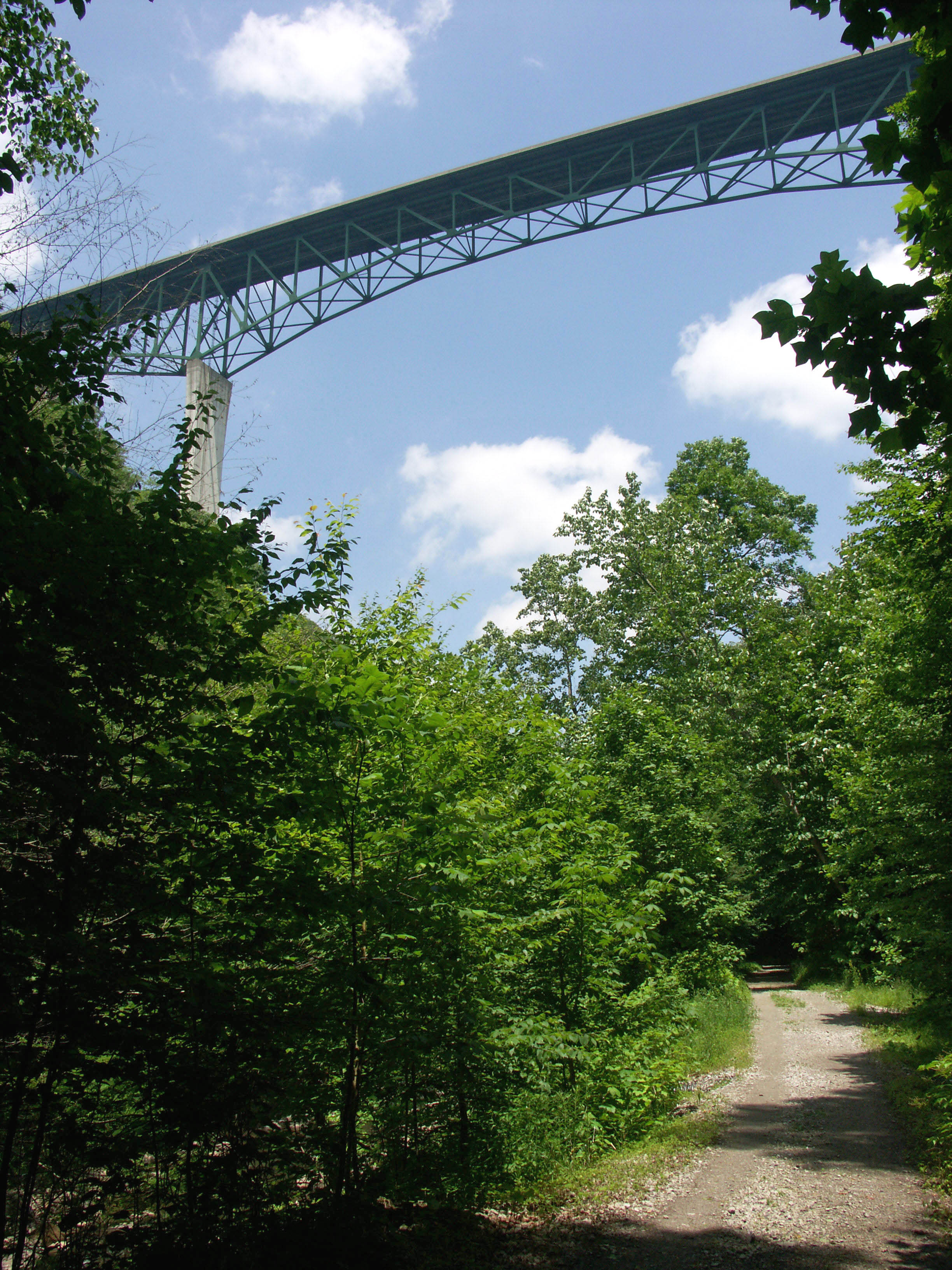 View looking up to the Phil G Mc Donald (Glade Creek) Bridge.